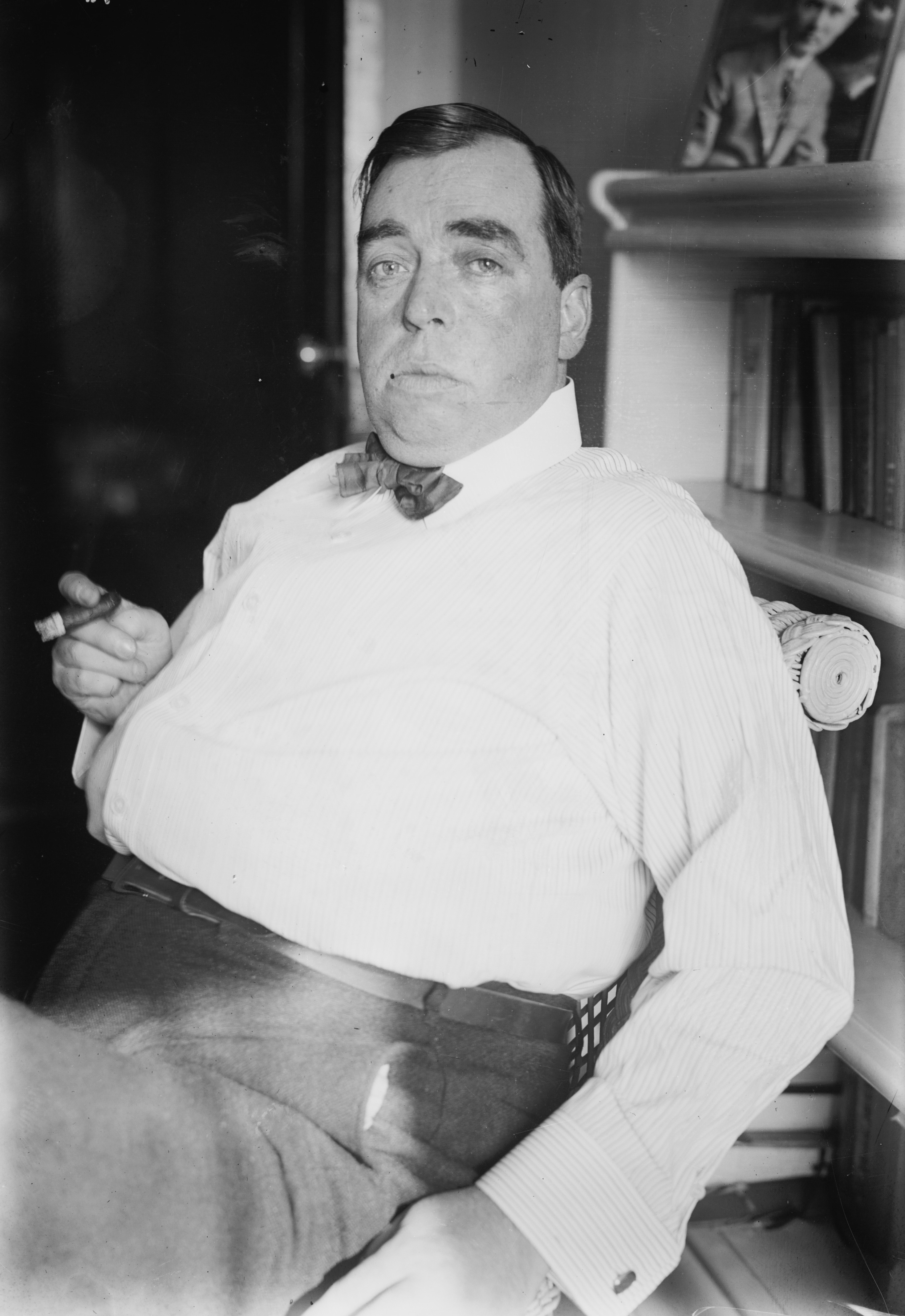 Irvin Cobb